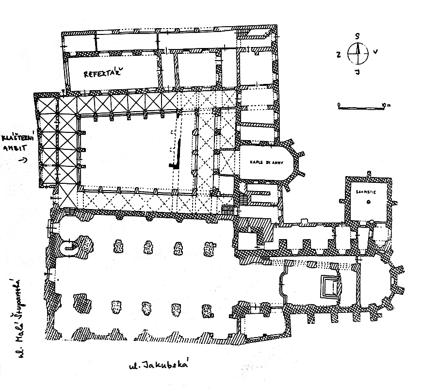 Floor plan of the monastery of st. James